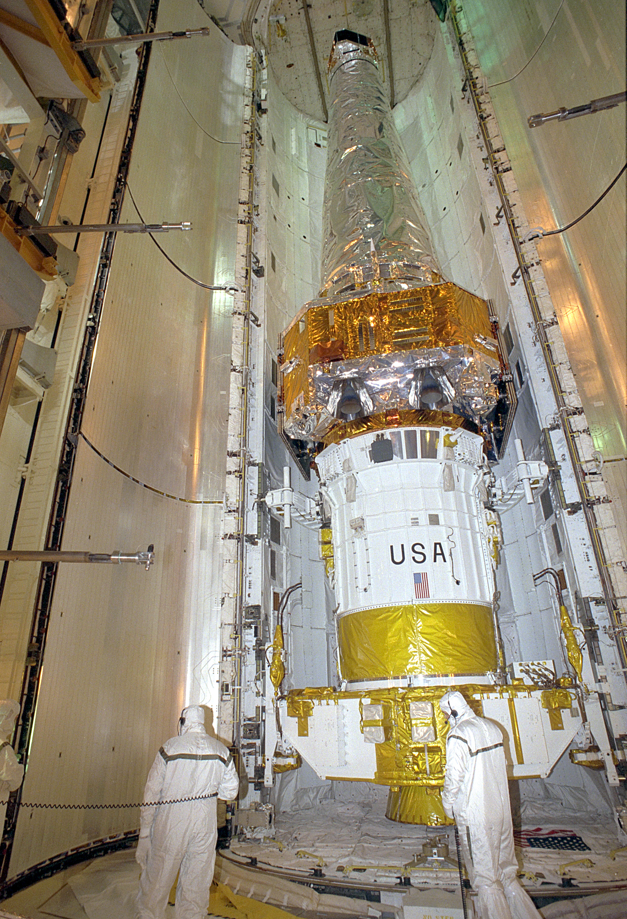 At Launch Pad 39B, the Space Shuttle Columbia's payload bay doors close around the Chandra X-ray Observatory inside, while workers monitor the activity. Chandra is the primary payload on mission STS-93, scheduled to launch aboard Columbia July 20 at 12:36 a.m. EDT. The combined Chandra/Inertial Upper Stage, seen here, measures 57 feet long and weighs 50,162 pounds. Fully deployed with solar arrays extended, the observatory measures 45.3 feet long and 64 feet wide. The world's most powerful X-ray telescope, Chandra will allow scientists from around the world to see previously invisible black holes and high-temperature gas clouds, giving the observatory the potential to rewrite the books on the structure and evolution of our universe.